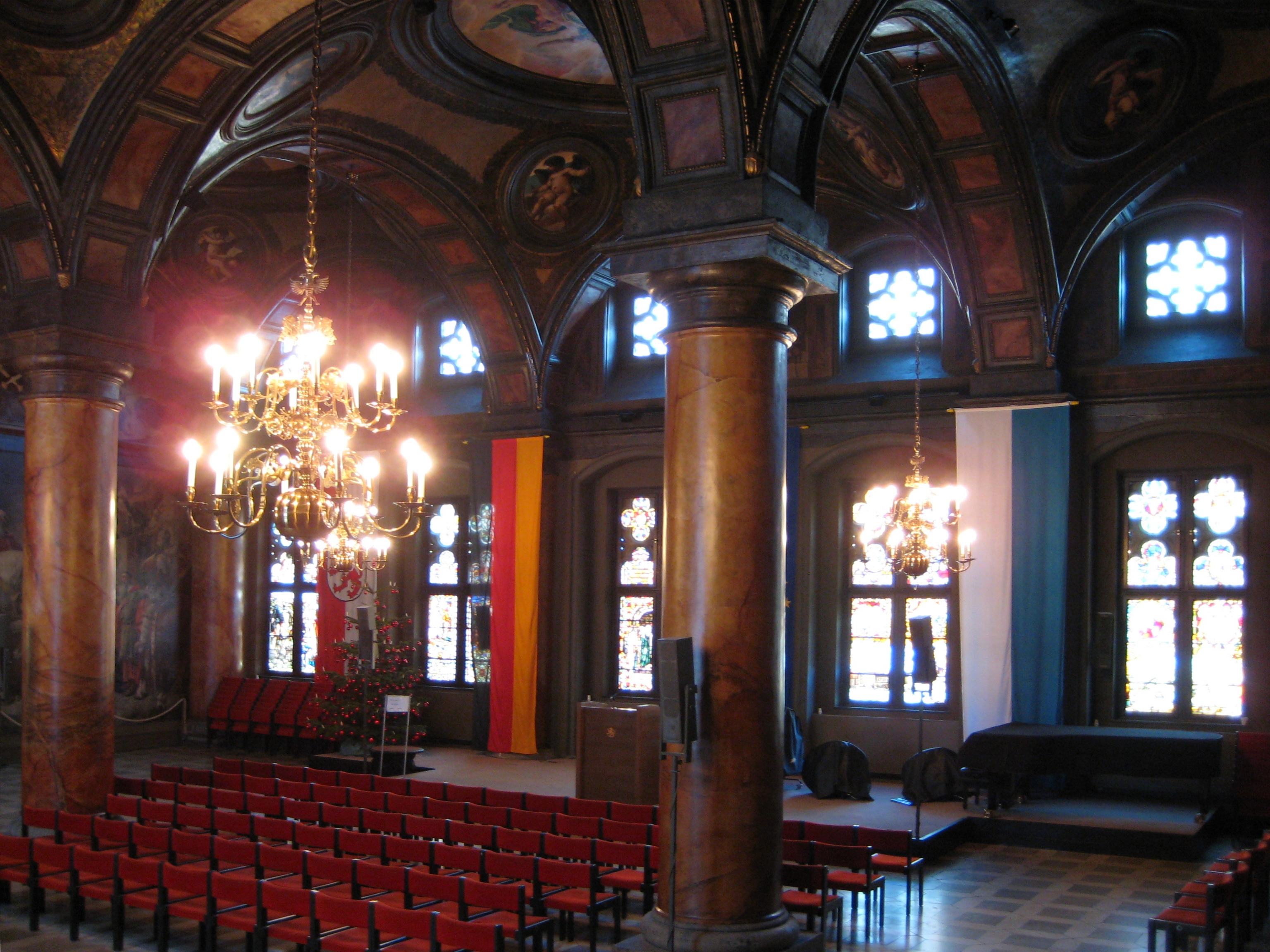 Town hall of Passau, council chamber